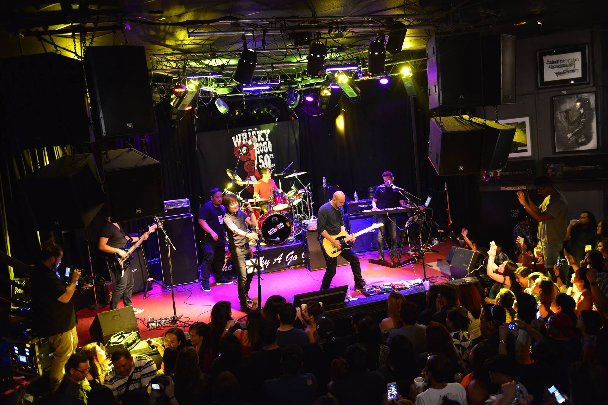 Introvoys Live at The Whiskey A Go Go Hollywood